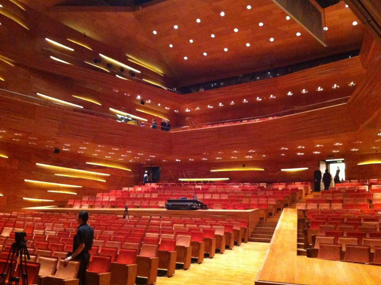 Hall of Kodaly center, Pécs, Hungary.